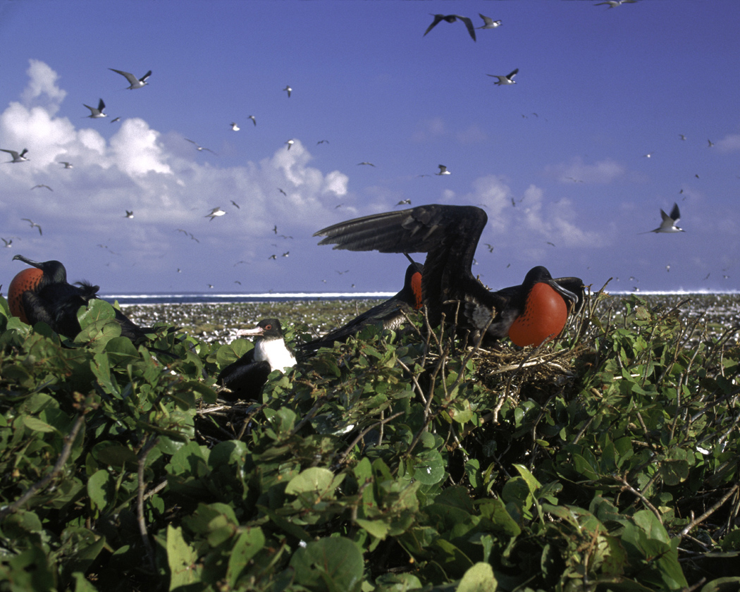 Great Frigate Birds (Fregata minor) on Johnston Atoll, Pacific Island Wildlife Refuges